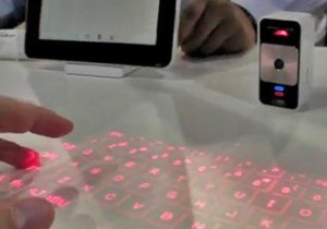 Laser Keyboard being used with a tablet device.